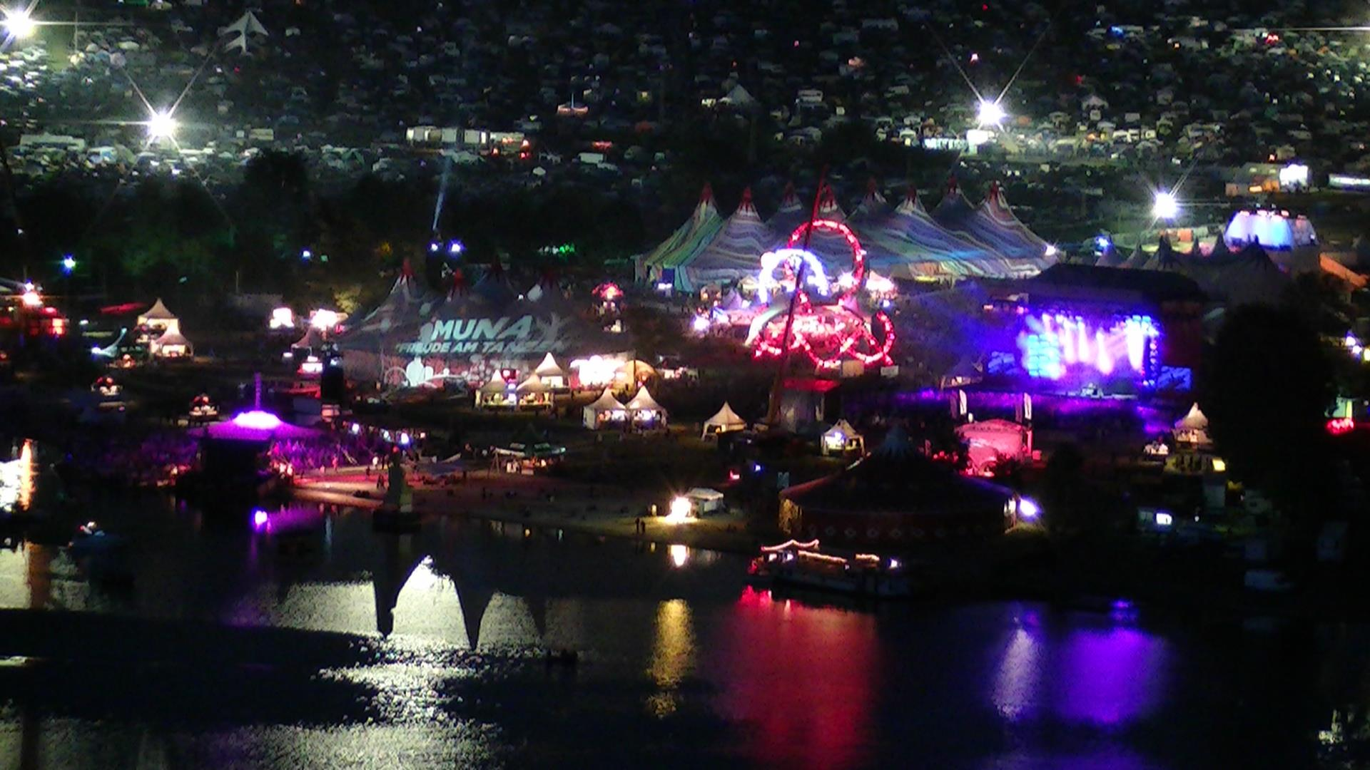 SonneMondSterne X5 - part of the festival site at night.